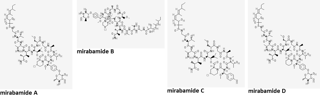 Mirabamide A-D